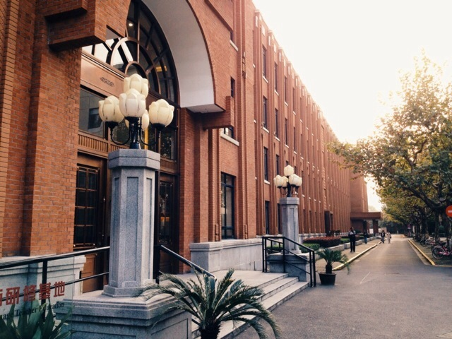 Institute of Global Chinese Language Teacher Education at ECNU